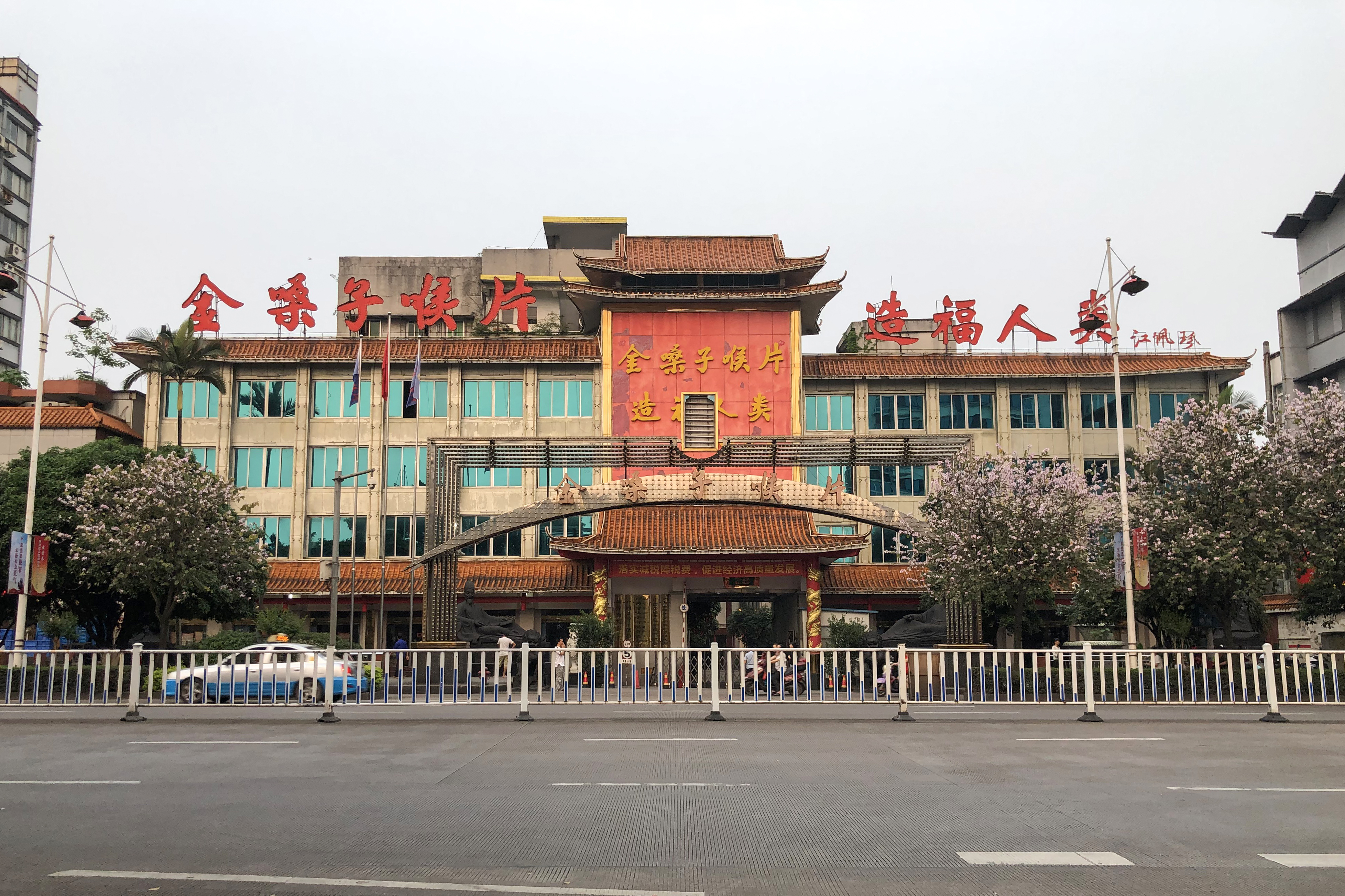 Just next to Liuzhou North Railway Station.